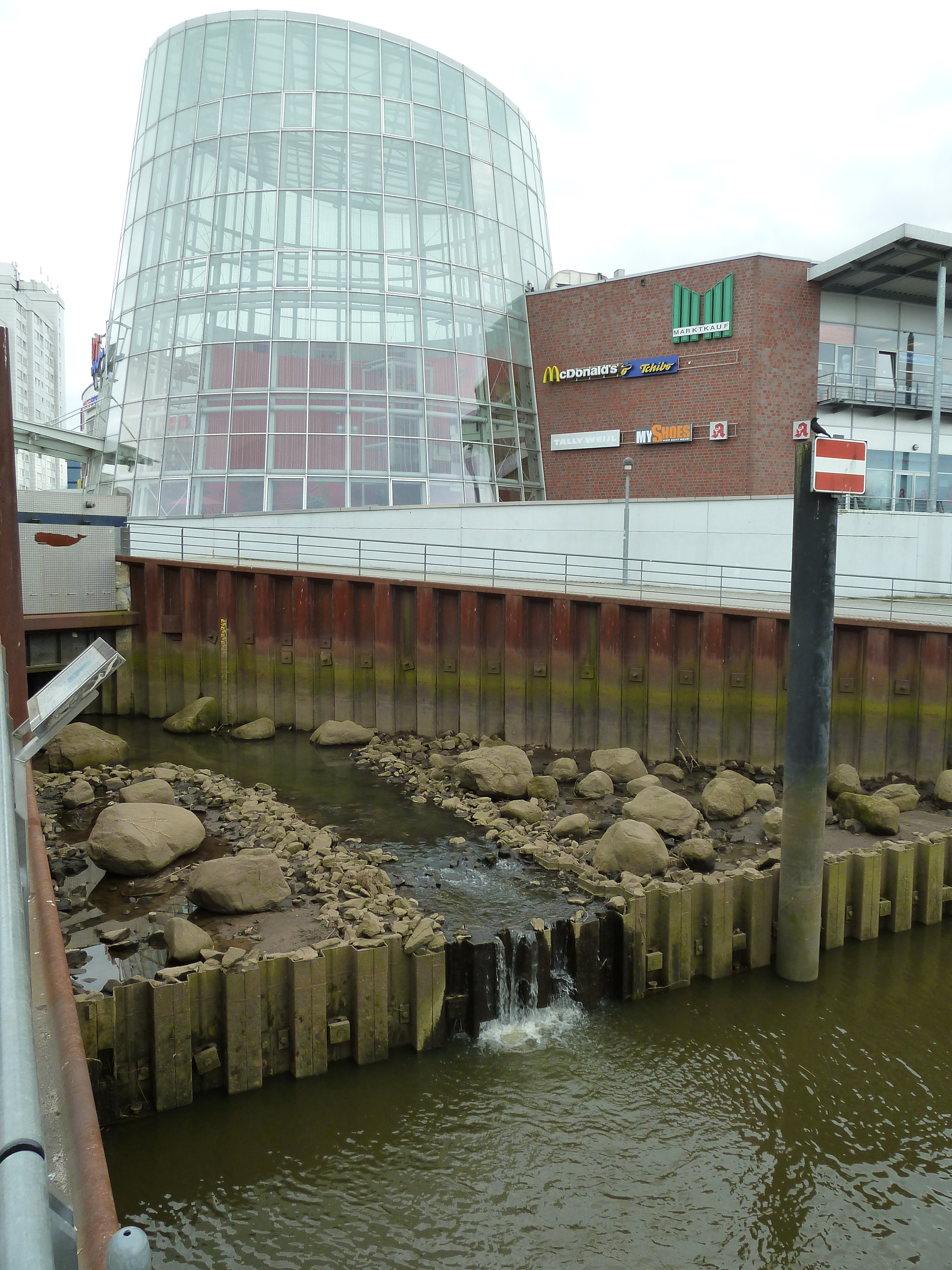 Vegesack harbour - inlet of the Schönebecker Aue